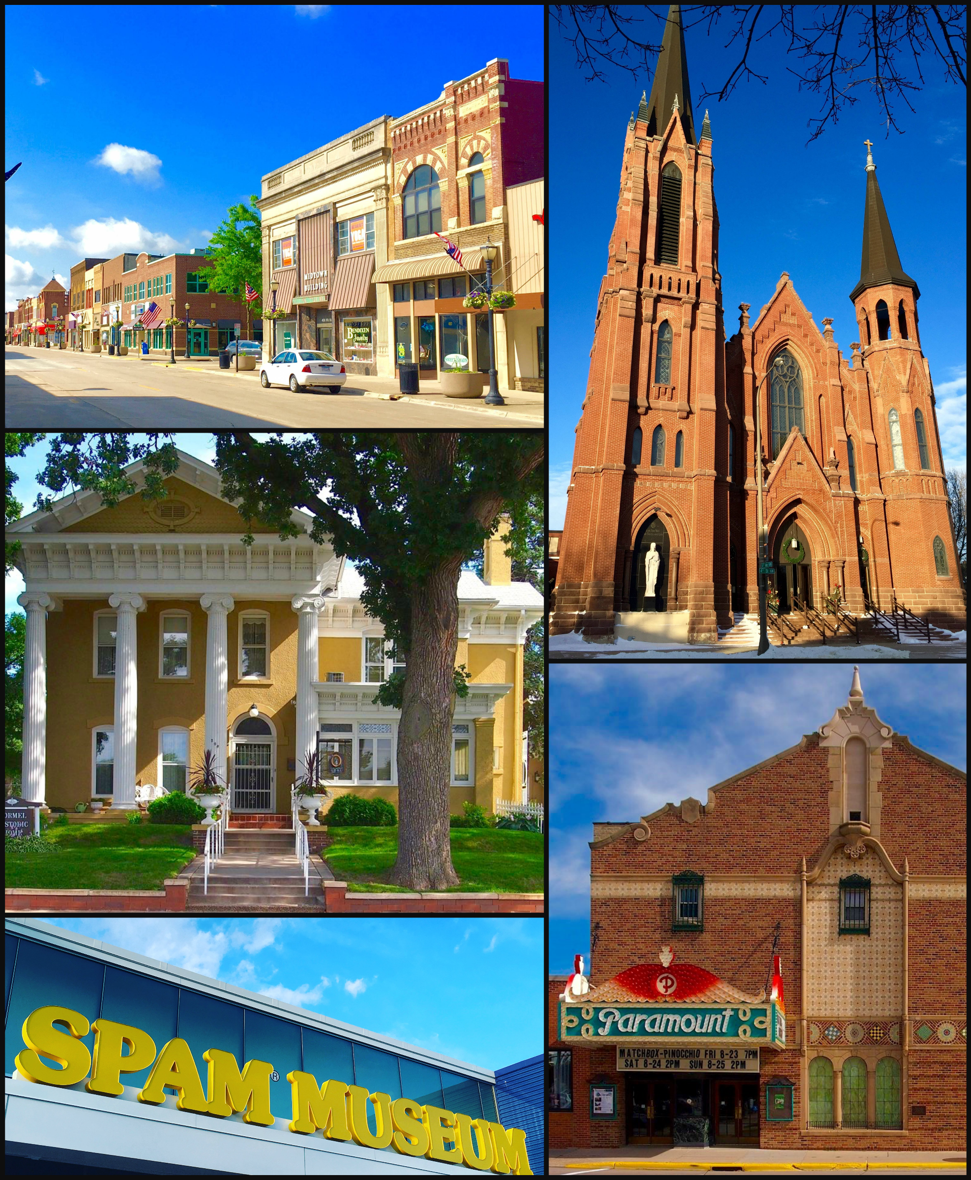 Clockwise from top: Downtown Austin, St. Augustine's Church, Paramount Theater, Spam Museum, Hormel Historic Home